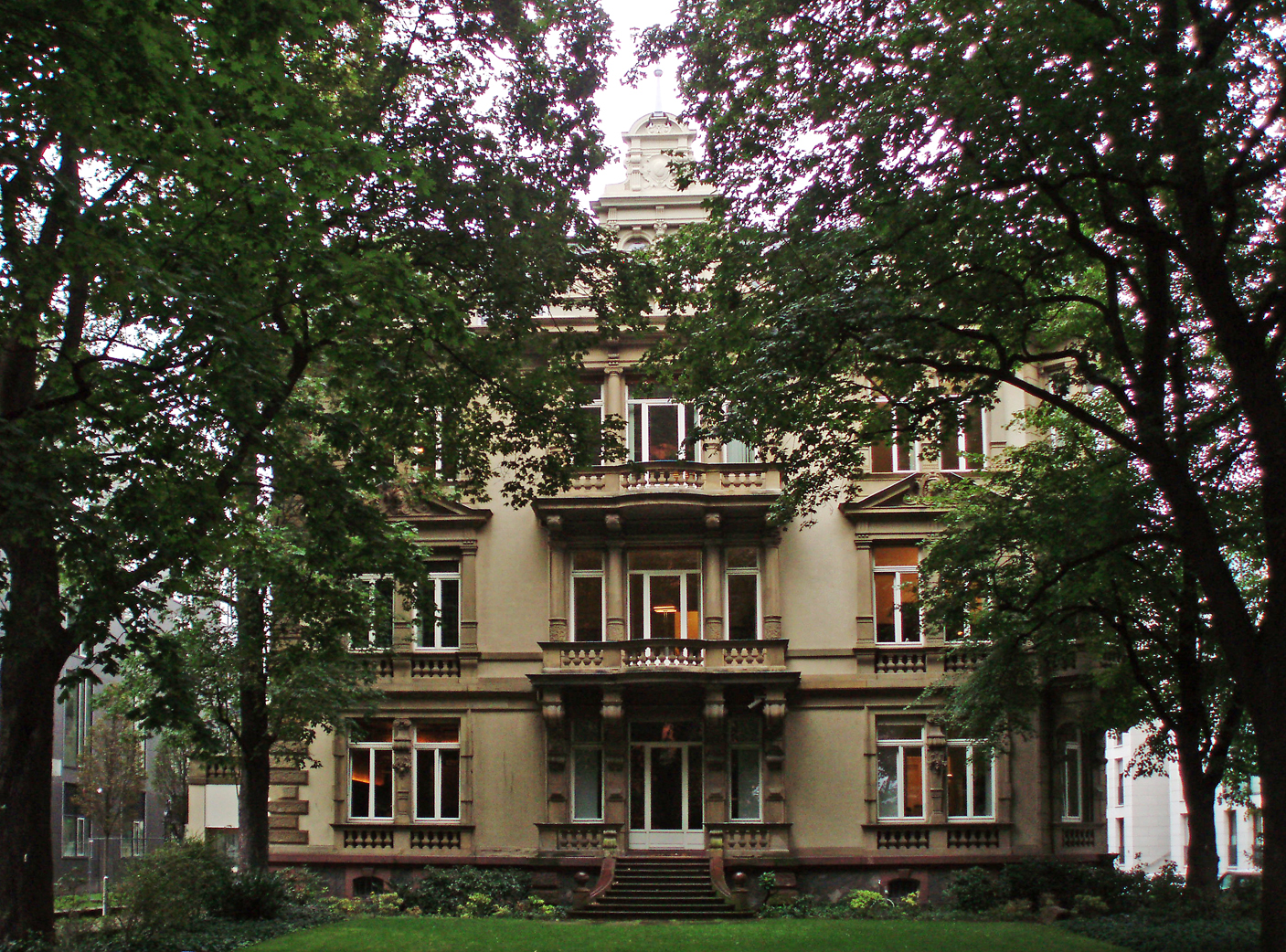 Office building